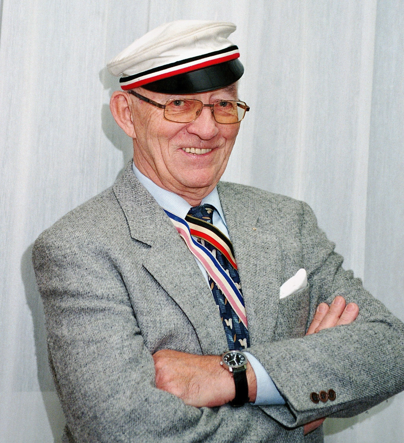 Prof. Dr. Hermann Rink, First Chairman of the Board of academic alumni association Verband Alter Corpsstudenten e.V. (2008-2011)